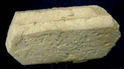 Kaolinite, Orthoclase Locality: St Austell District, Cornwall, England, UK (Locality at ) Size: miniature, 4.5 x 2.6 x 1.1 cm Kaolinite ps. Orthoclase twin Very good and relatively large pseudomorph of Kaolinite after an Orthoclase Karlsbad twin. The off-white color is attractive, but what really makes this is the well-preserved habit of the twinned crystal. Overall, a very fine specimen from one of England�s most famous localities.